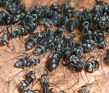 Camponotus sericeus Bangalore January 2006 Photograph by L. Shyamal. Identified by M. Sunil Kumar from photograph.